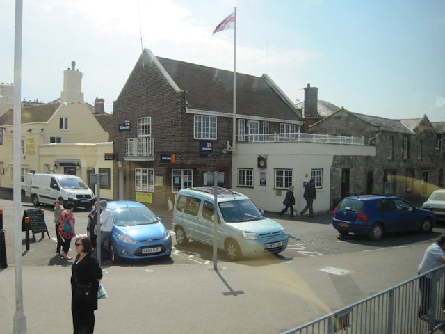 Yarmouth Lifeboat station, Data from Geograph: Description: SZ3589 :: Yarmouth Lifeboat station, near to Yarmouth, Isle of Wight, Great Britain ICBM: 50.706133791179, -1.4996206339595 Location: (about 1 km from) near to Yarmouth, Isle of Wight, Great Britain.